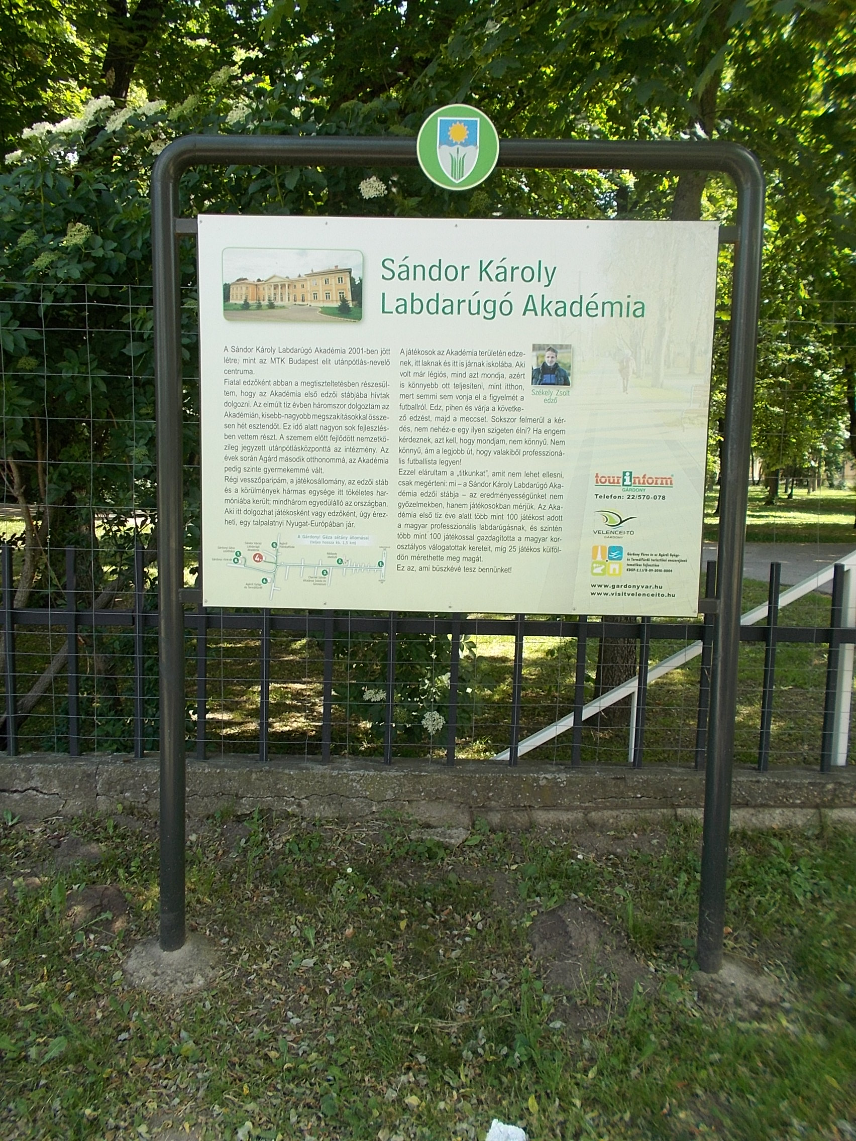 Tourinform information board about Sándor Károly Football Academy. - Gárdonyi Street, Agárd, Gárdony, Fejér County, Hungary.